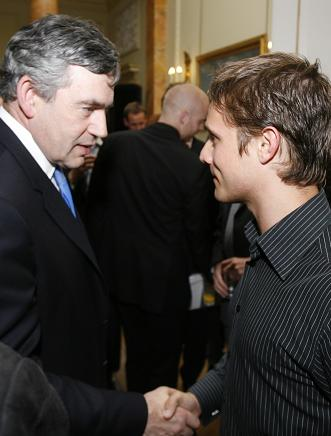 A picture of Gorden and Ben Way commissioned by Ben Way